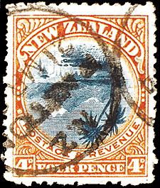 1904 Pictorial 4d postage stamp depicting Lake Taupo with inverted vignette